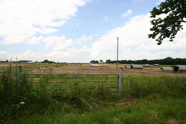 Pig farm near Mileham This is Grenstein Farm, looking north from the B1145.